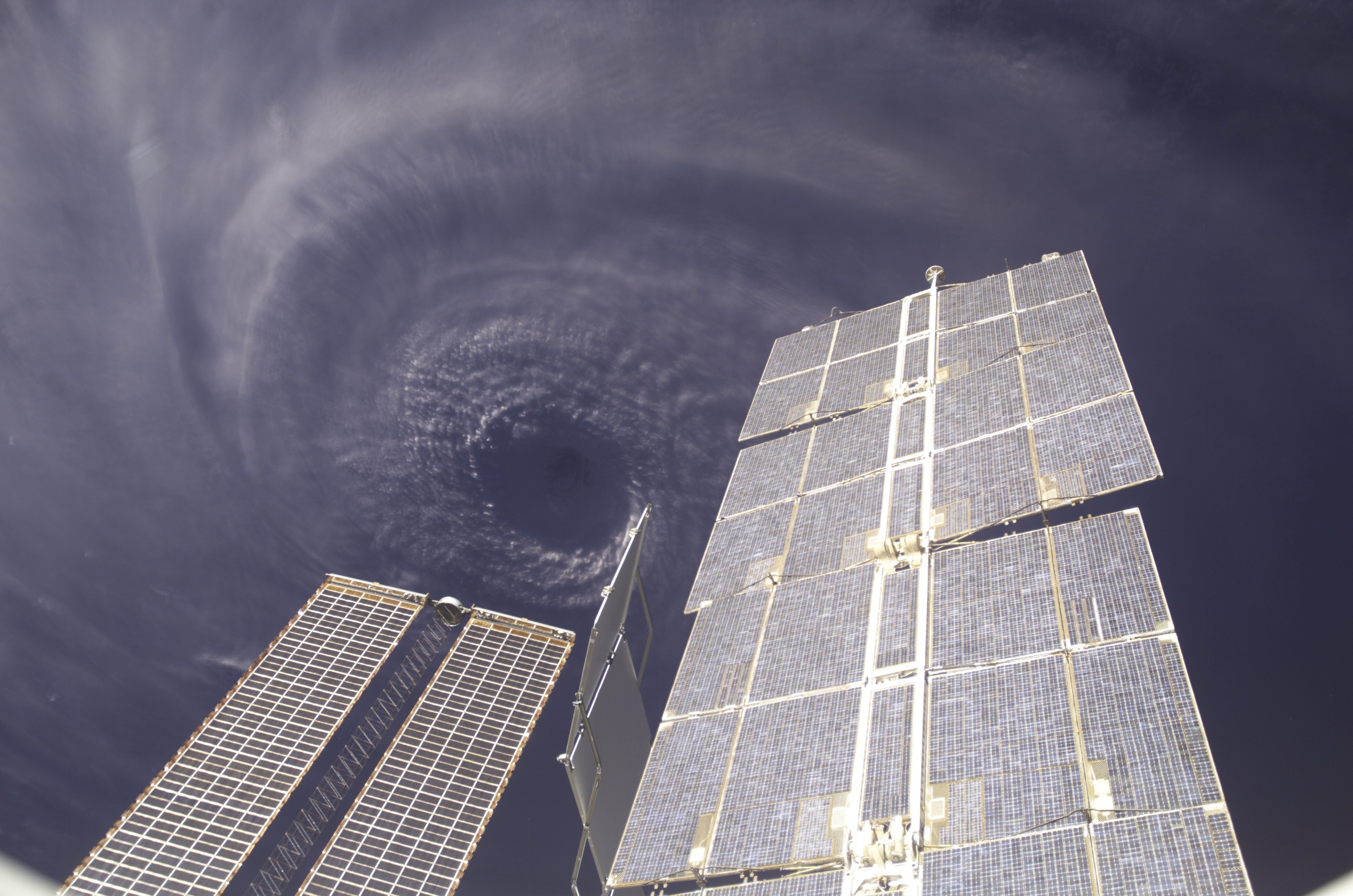 As Hurricane Ivan's sustained 200 kilometer per hour winds wreaked havoc in the Caribbean, the swirling eye of the hurricane was photographed on September 11, 2004 from aboard the orbiting International Space Station (ISS) at an altitude of about 230 miles. Rotated 180 degrees to give more of a visual clue that we're above it.